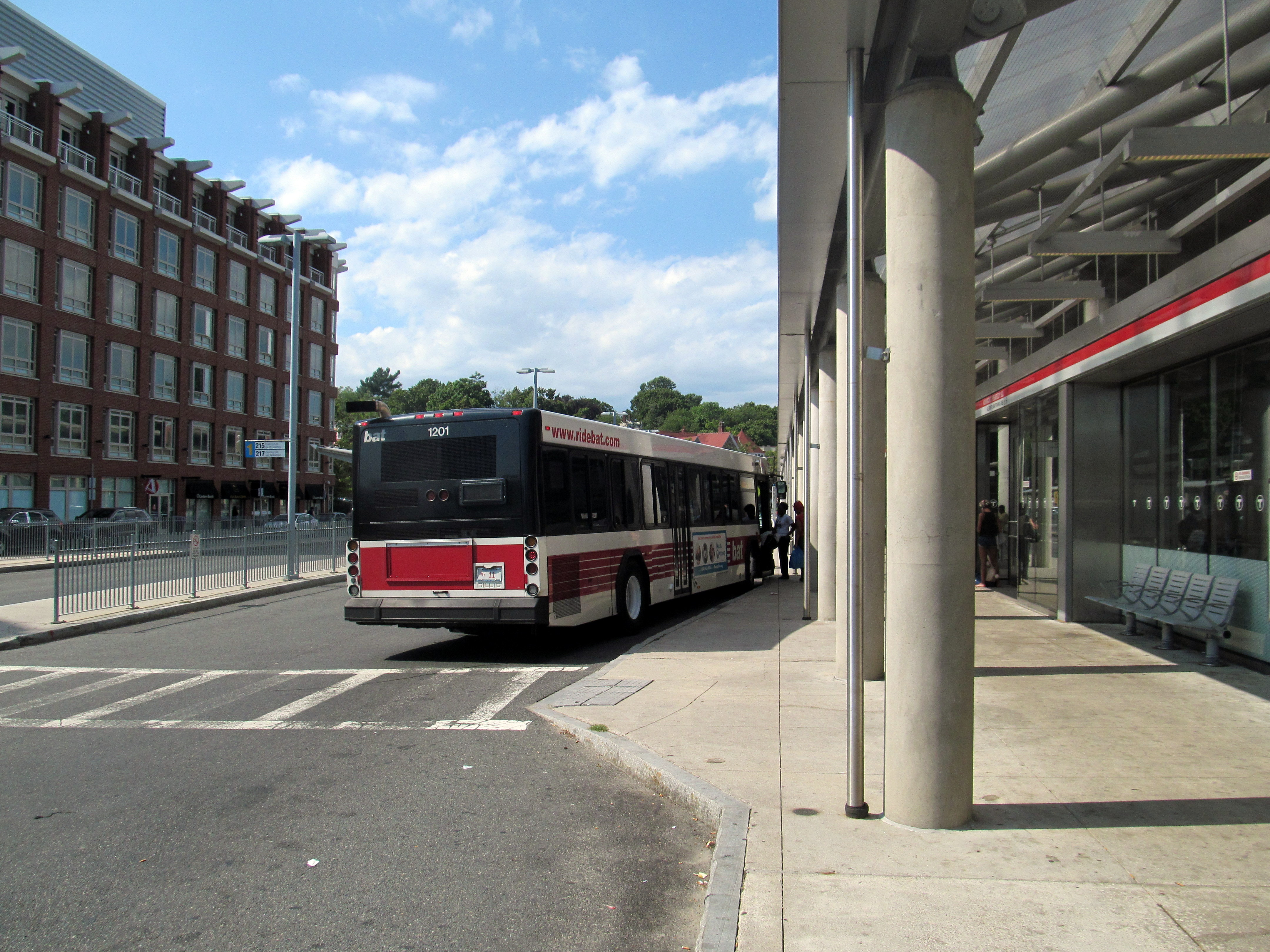 Brockton Transit Authority bus at Ashmont station in August 2016